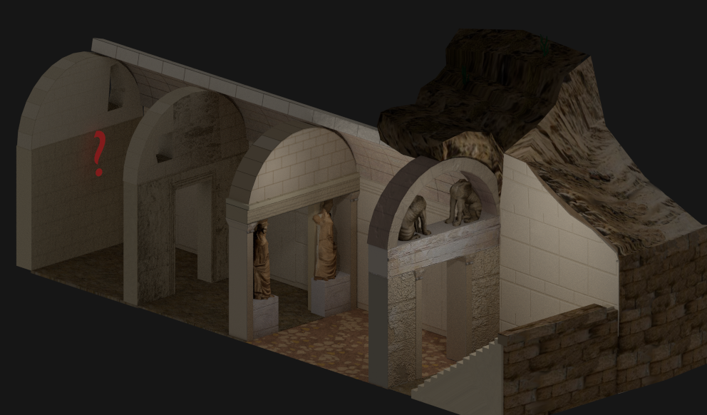 Kasta Tomb